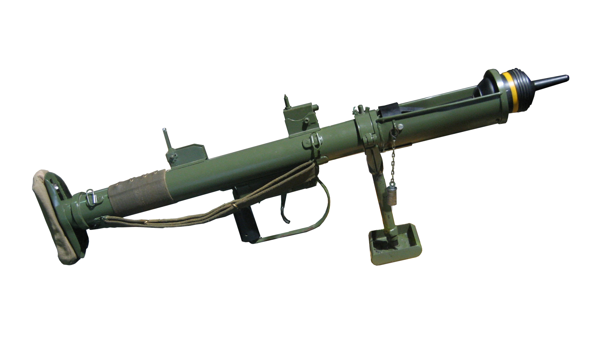 The British PIAT anti tank weapon. This particular gun is part of an interactive display at the Museum of Army Flying, Hampshire, UK.